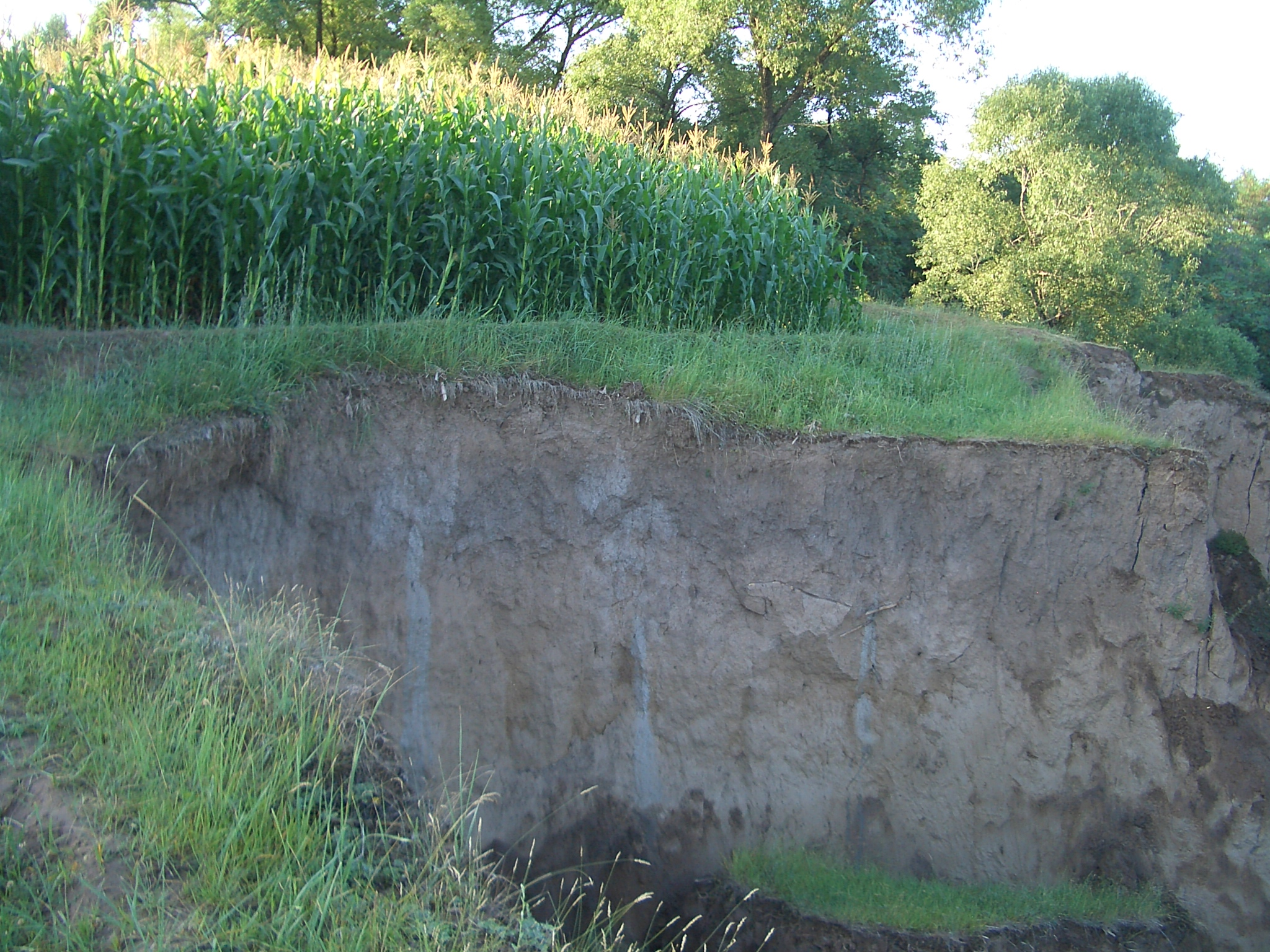 The eroding edge of the loess plateau just north of Linxia City (near the Wanshou Guan pagoda)